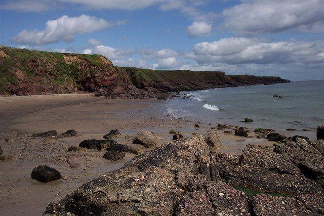 Sandeel Bay, Nr Fethard on Sea